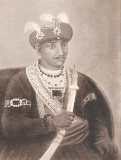 Ahmad Ali Khan